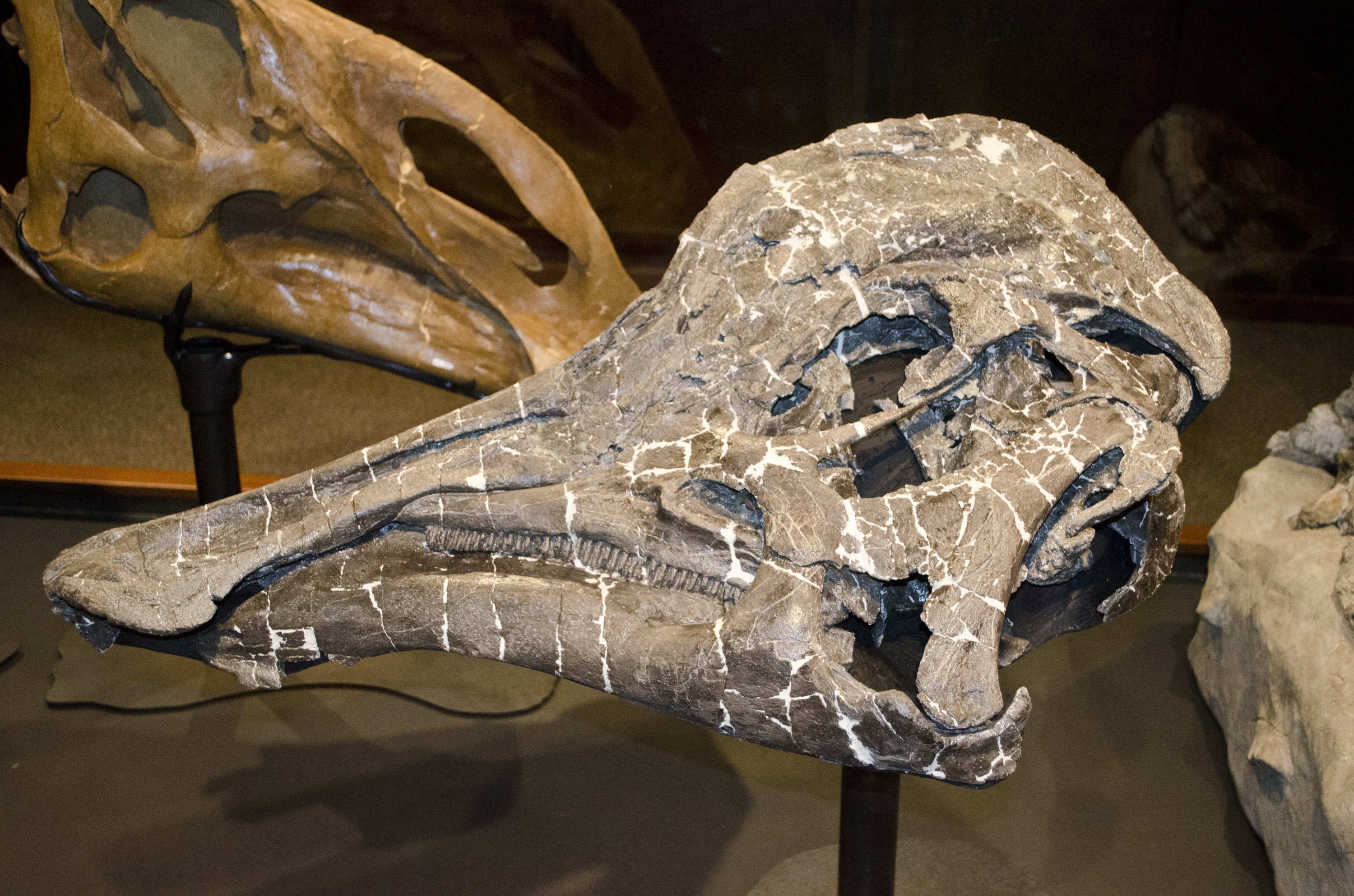 The holotype skull of Hypacrosaurus stebingeri, collected in Glacier County, Montana, at the Museum of the Rockies in Bozeman, Montana. A holotype is the "type specimen" -- that first specimen ever found which is used to describe the entire species. Hypacrosaurus is a duckbilled dinosaur with a hollow crest on its head. It was discovered in 1910 in Alberta, and named Hypacrosaurus altispinus. In 1994, Hypacrosaurus stebingeri was discovered in Montana. Scientists quickly realized that many H. altispinus juveniles were rally H. stebingeri instead. Shortly thereafter, a vast amount of Hypacrosaurus stebingeri baby, juvenile, and egg were discovered in Glacier County -- the largest collection of baby skeletal material of any hadrosaur yet discovered. Once obscure, Hypacrosaurus stebingeri is now a star, baby!